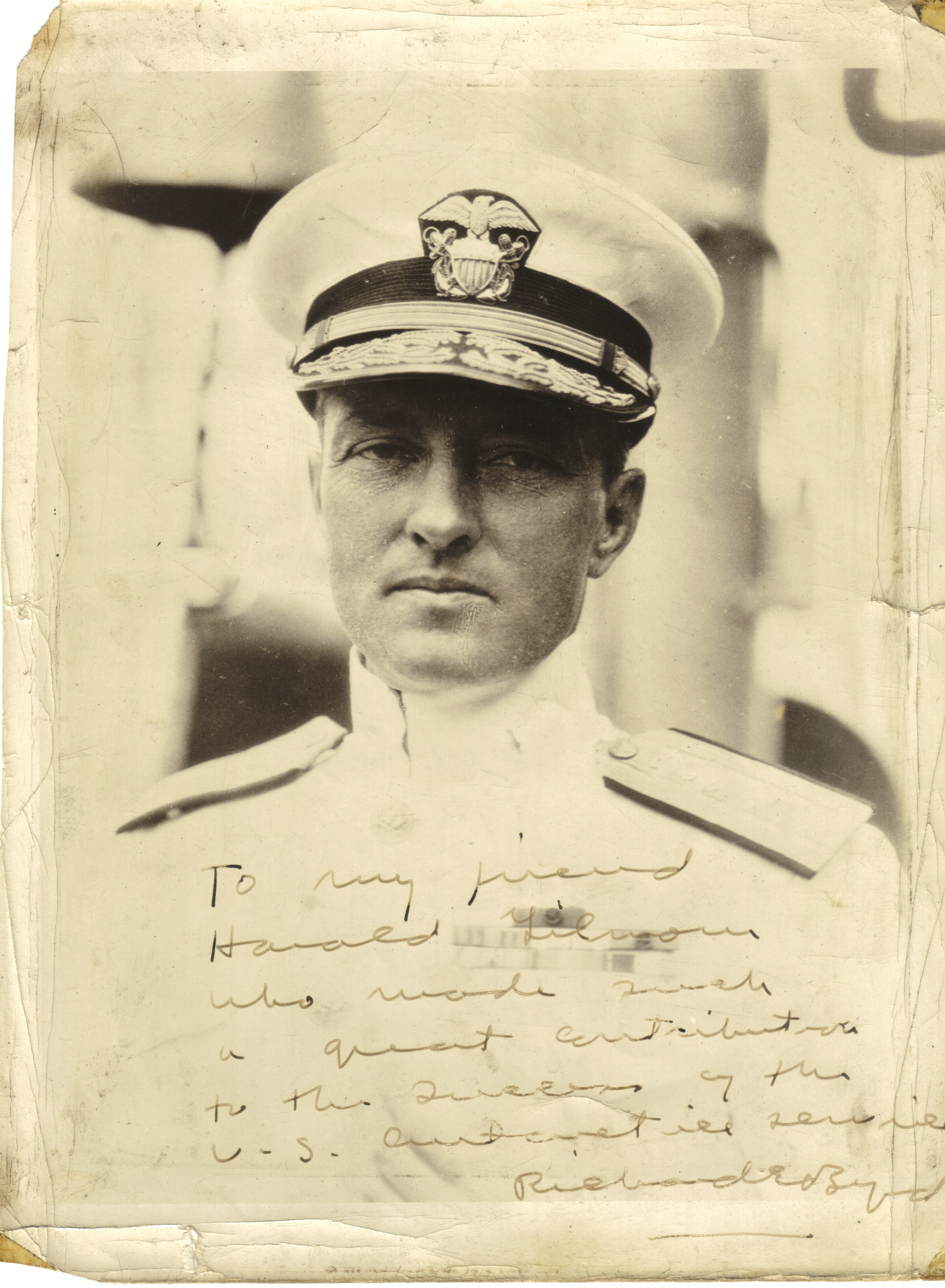 Portrait of Rear Admiral Richard E. Byrd that says: "To my friend Harold Gilmour who made such a great contribution to the success of the US Antarctic Service" Signed: Richard E. Byrd